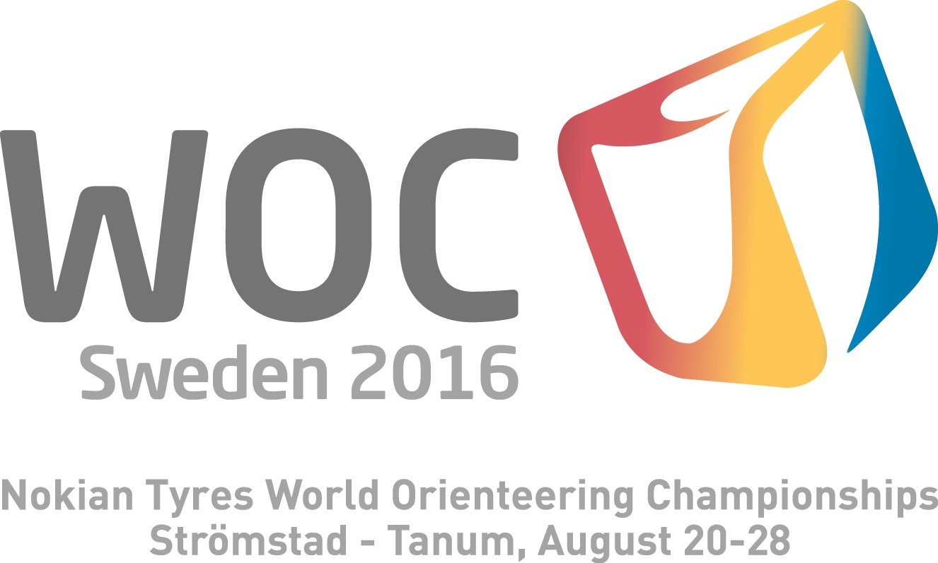 World Orienteering Championships 2016 logo